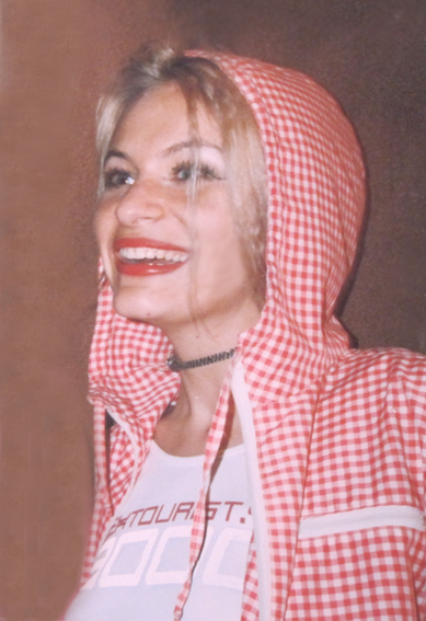 Ruslana Eisenschmidt at the agency Disco 3000 with an original 3000 T-shirt.